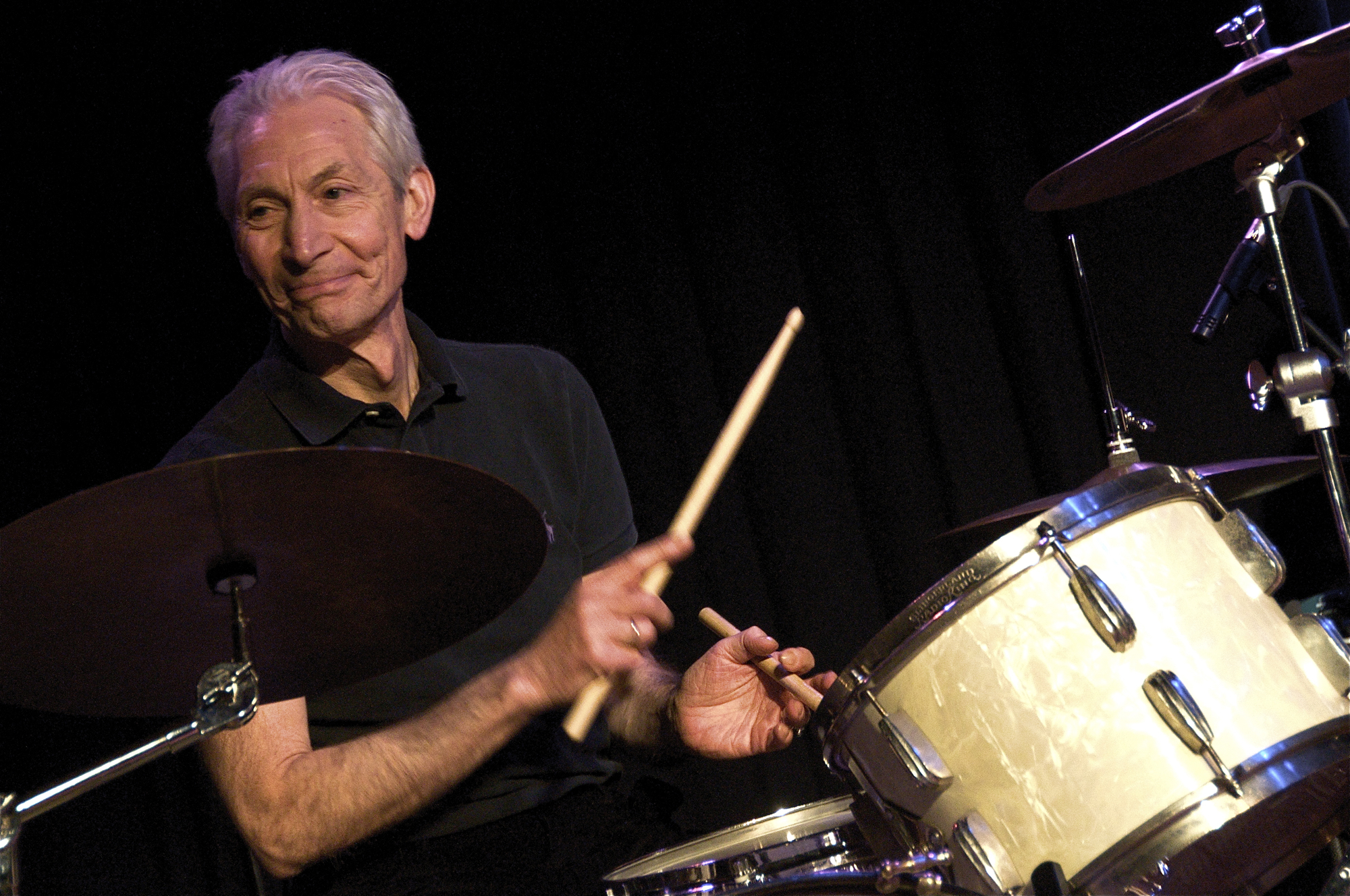 Charlie Watts drums for his second band besides The Rolling Stones, The ABC&D of Boogie Woogie, in the Casino in Herisau, Switzerland on January 13th, 2010.